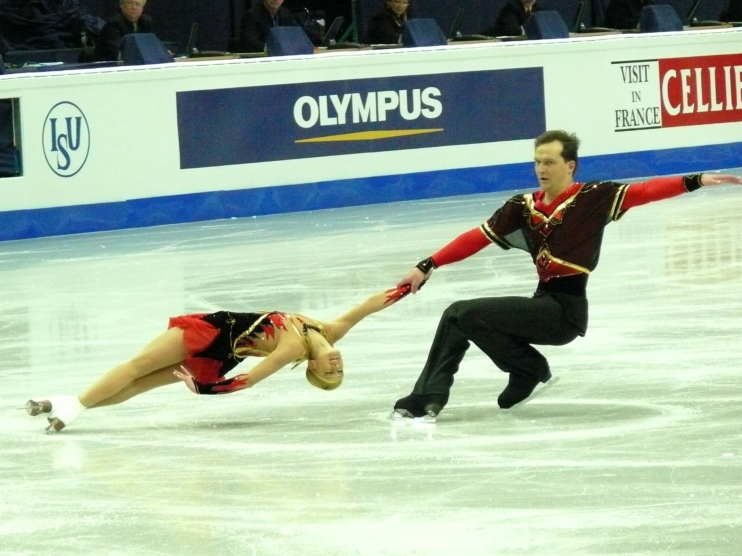 Tatiana Volosozhar and Stanislav Morozov (UKR) at their short program at the World Championships in Figure Skating 2008 in Göteborg (SWE)